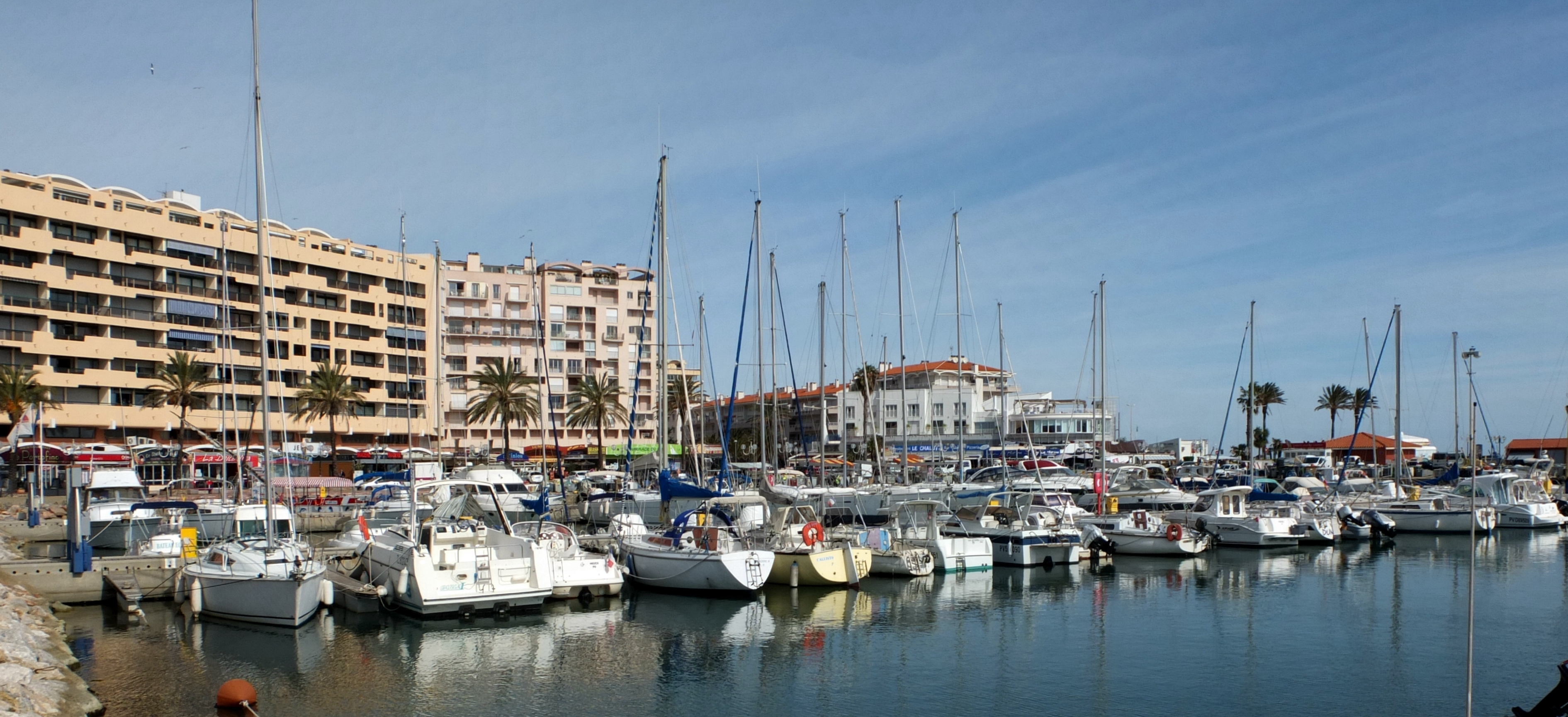 Port of Saint Cyprien-Plage, France (view from S)